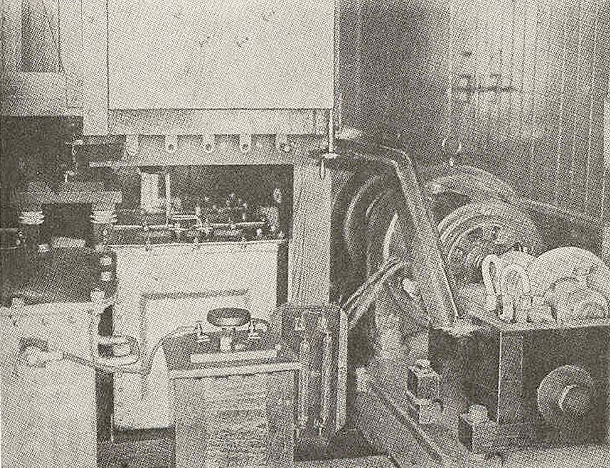 Subject: Telegraph, Telegraph equipment and supplies, Mahroussa (Yacht) Tag: Vessels